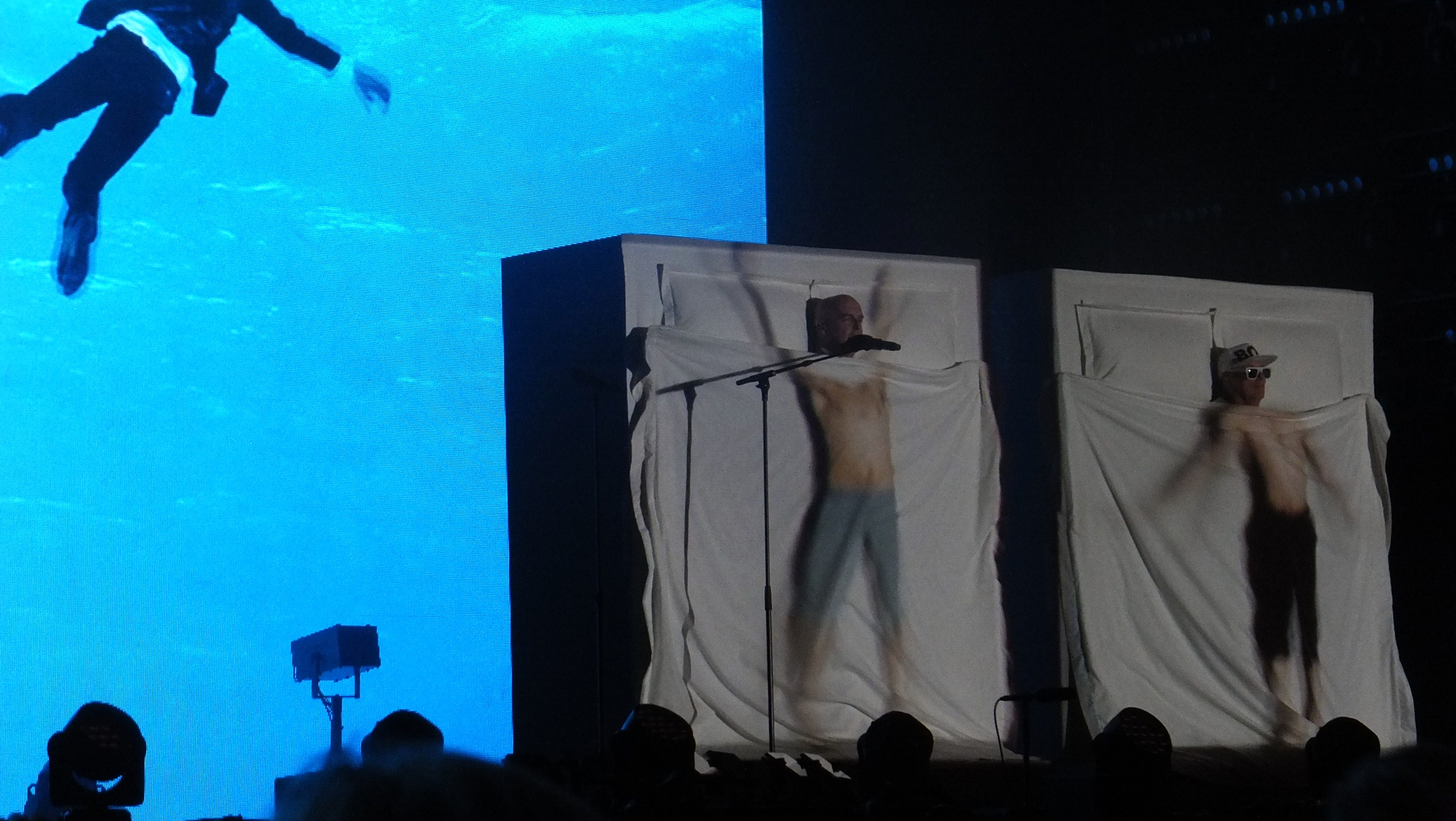 The British pop music band Pet Shop Boys performing onstage at the Flow Festival in Helsinki, August 2015.